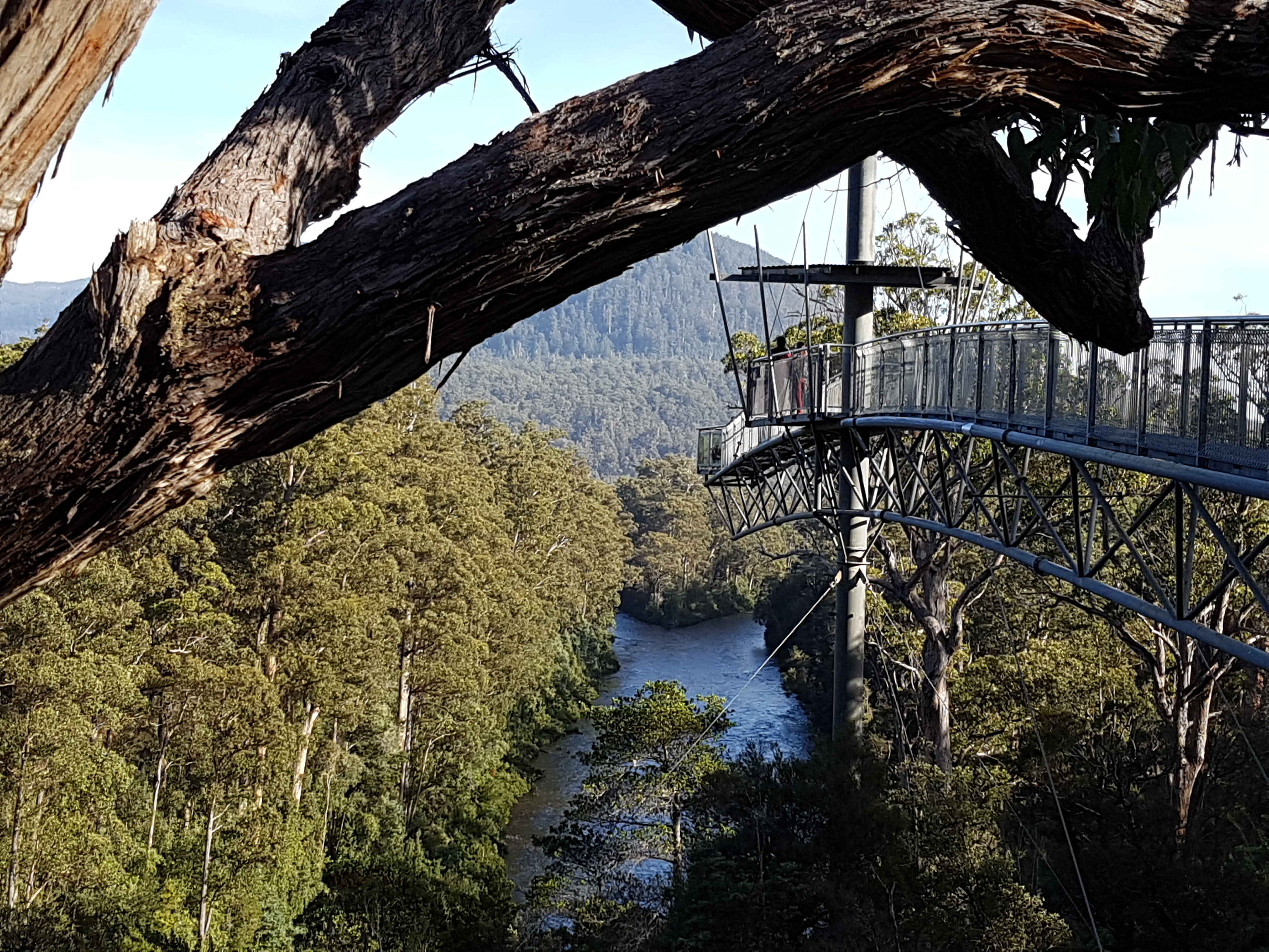 Tahune Airwalk cantilever view and the Huon and Picton Rivers.